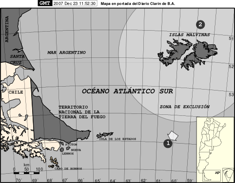 Map on "Clarin", Buenos Aires, Mai 1982, after ARA General Belgrano sunk